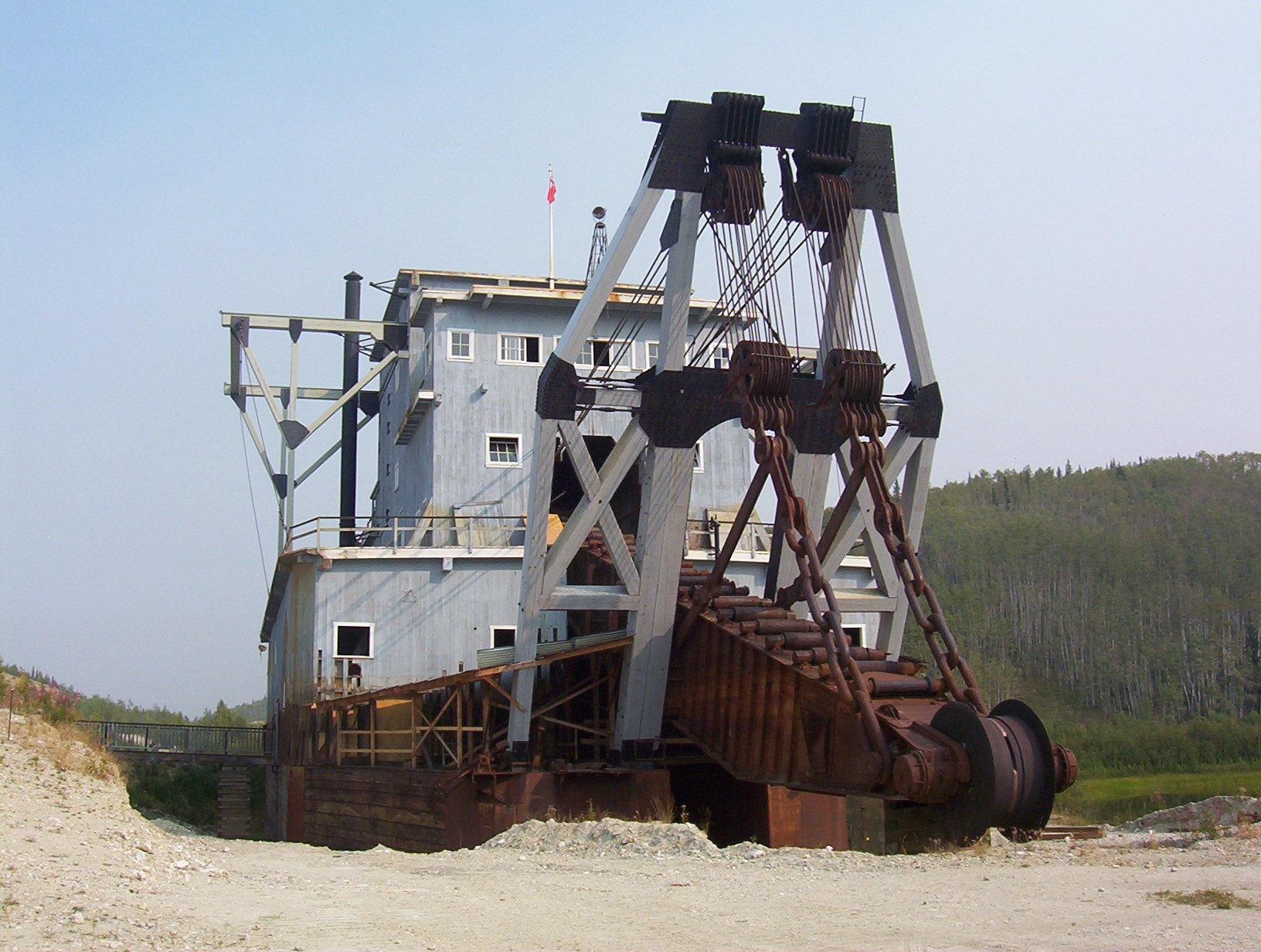 Dredge_No-4, Bonanza Creek, Dawson, Yukon, Canada